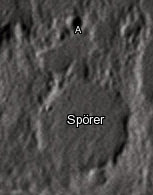 Sporer lunar crater as seen from Earth with satellite craters labeled